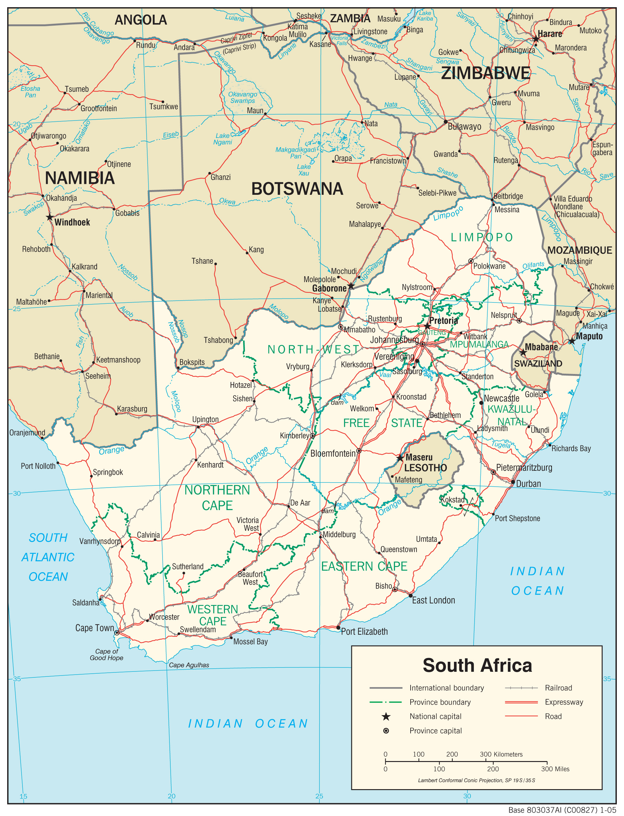 Transport system in South Africa, 2005.